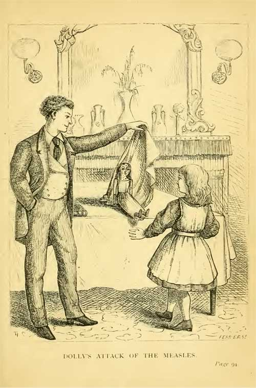 Illustration by Tom Hood (1835-1874) for ales of the Toys told by Themselves by Frances Freeling Broderip (1869 )